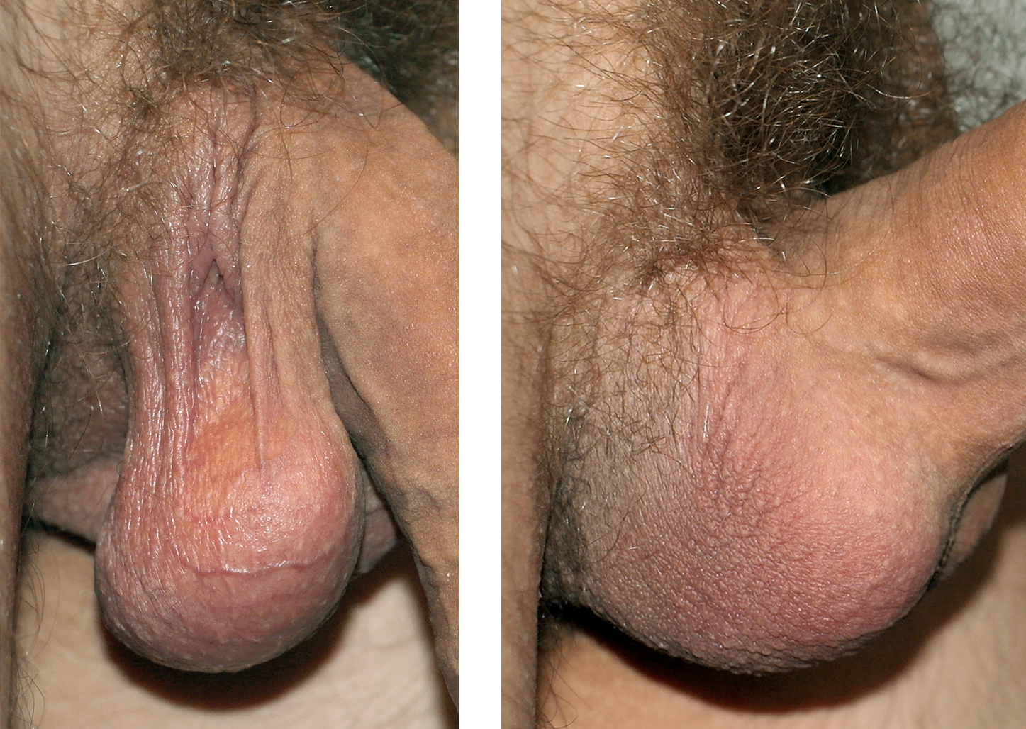 Scrotum in relaxed and tense states of a Southern European male, 30 years, with shaved genitalia. The testicles are situated inside the scrotum as they need a lower temperature than the body. They usually differ slightly in size, one hanging lower than the other. At normal temperatures the scrotum and testicles are very loose, they retreat towards the body for various reasons (cold temperatures, sexual arousal, embarrassment, or simply without any reason ...). It is not possible to control the movements. Read my comments here: 123GLGL